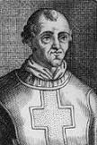 Lithograph of Pope Benedict VI, made before 1923